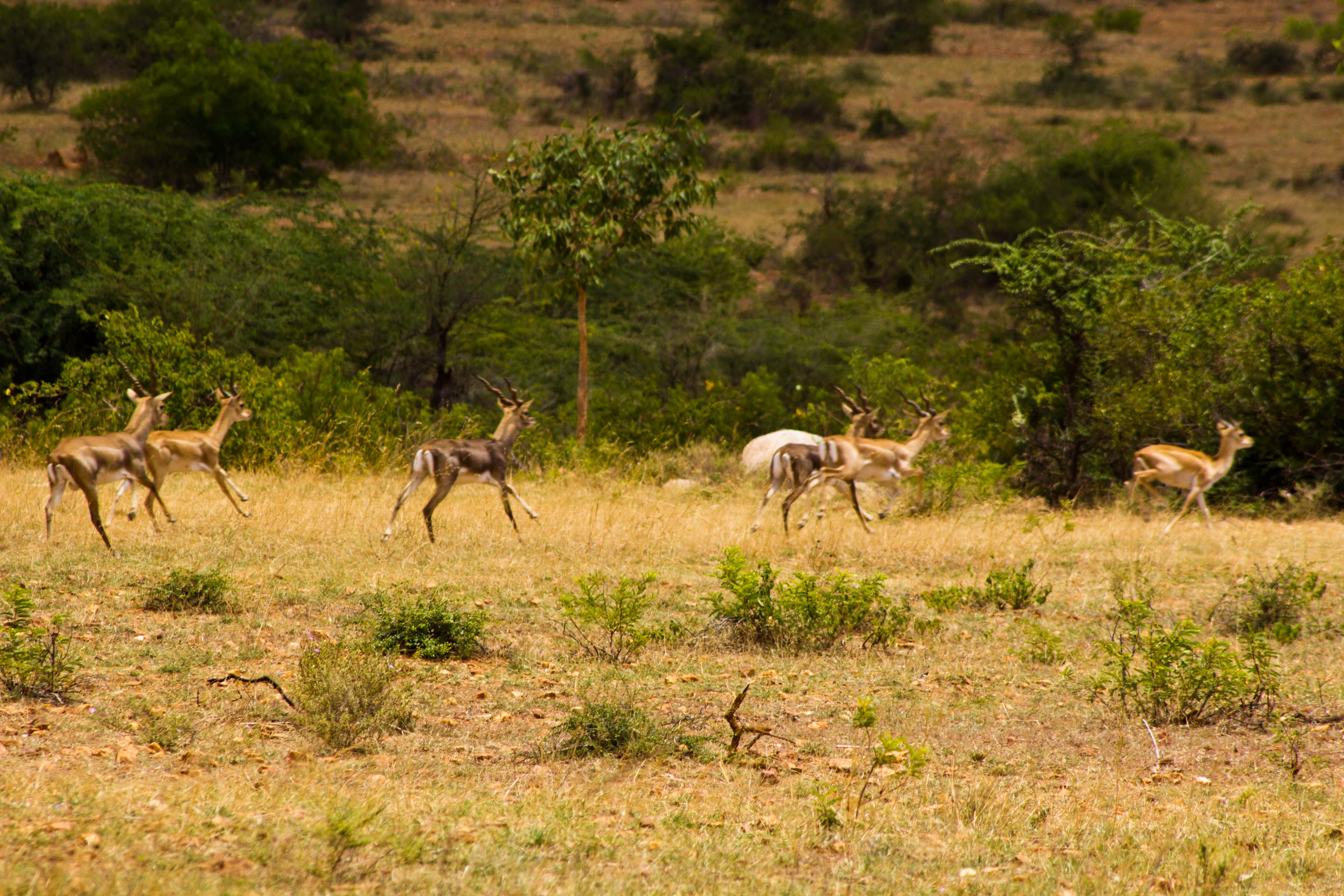 Black bucks at Jayamangala Black Buck reserve , near Madhugiri, karnataka